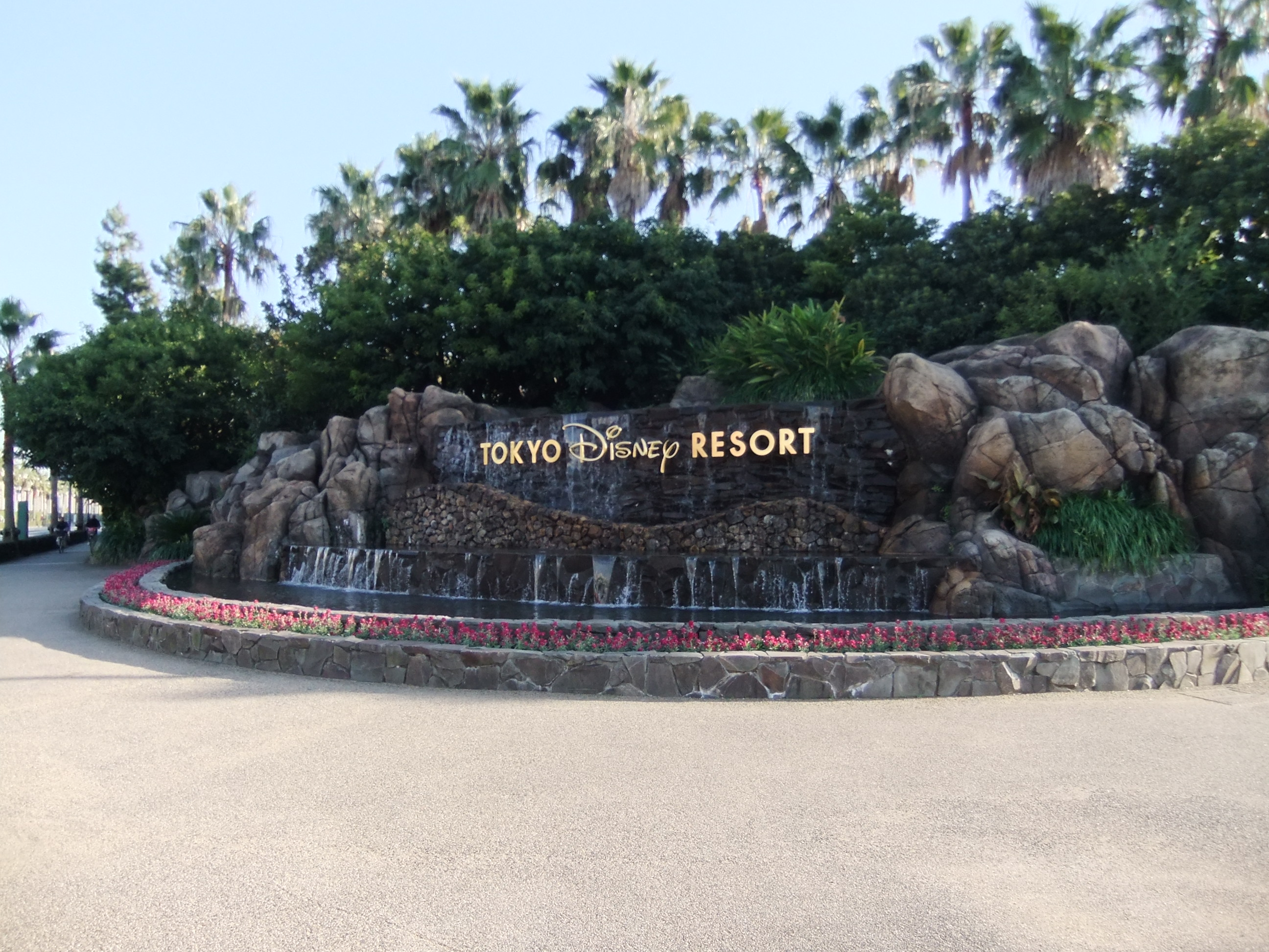 tokyo disney resort